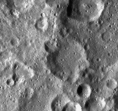 LRO WAC; Zanstra crater at center, Zanstra A above it. King crater ejecta at upper left.